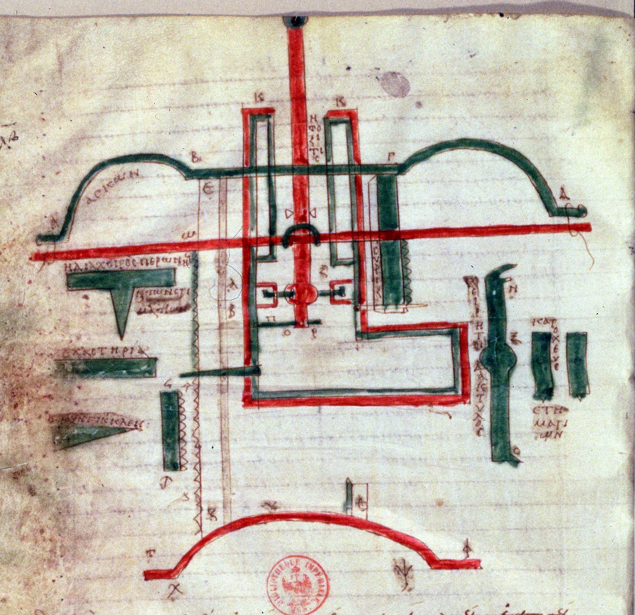 Gastraphetes of the Greek engineer Hero of Alexandria (manuscript illumination). Explanation: The green horizontal line with its forwardly bent limbs represents the double recurve bow. Below in red runs the bow string, which is drawn on the stock (the vertical thick red line). It was cocked by pressing down the stomach in a concavity at the rear of the stock which is the curved structure (red) at the bottom.